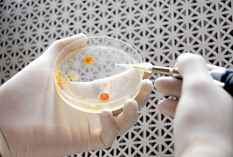 Cupriavidus necator cultures. Synonyms are Alcaligenes eutrophus, Ralstonia eutropha and Wautersia eutropha